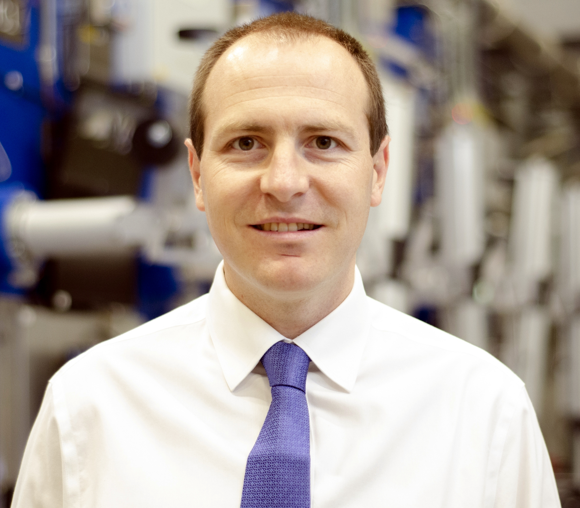 Professor Ian Chapman, CEO of the UK Atomic Energy Authority